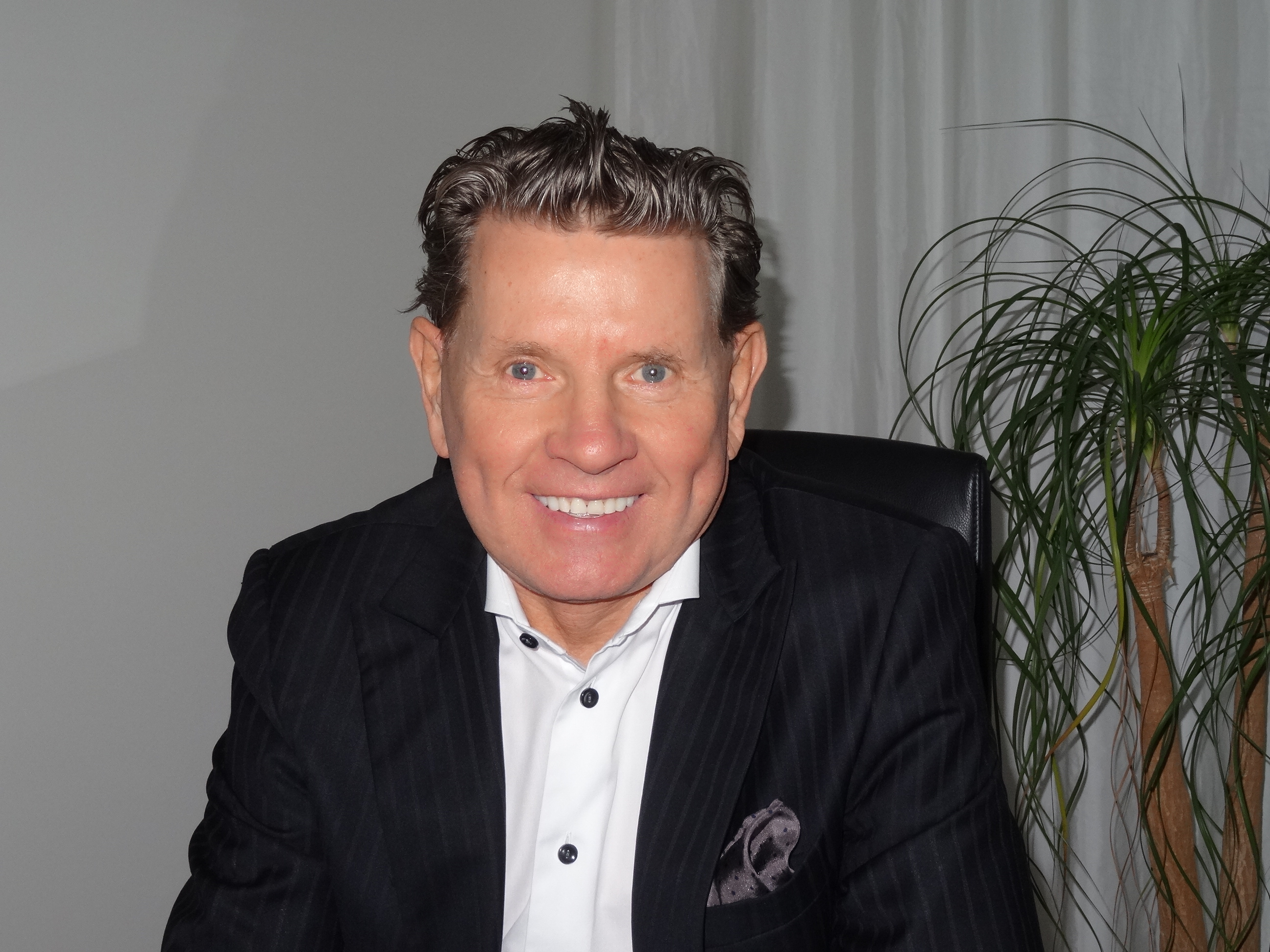 Werner Klein (Porträt)